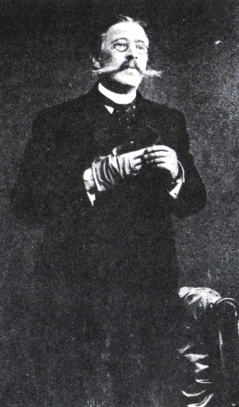 Konstantin Stanislavski as Prince Abrezhov in Leo Tolstoy's The Living Corpse (Живой труп)) at the Moscow Art Theatre in 1911.